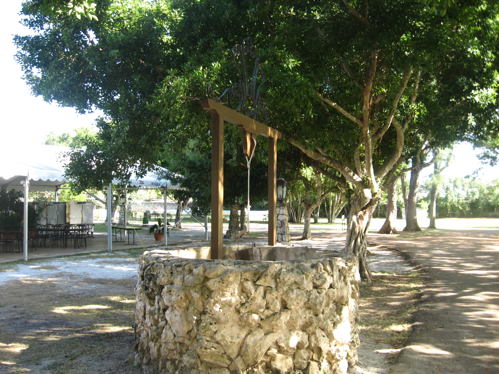 Water well, with lantern on stone pillar in a park in Pozo, Matanzas, Cuba.